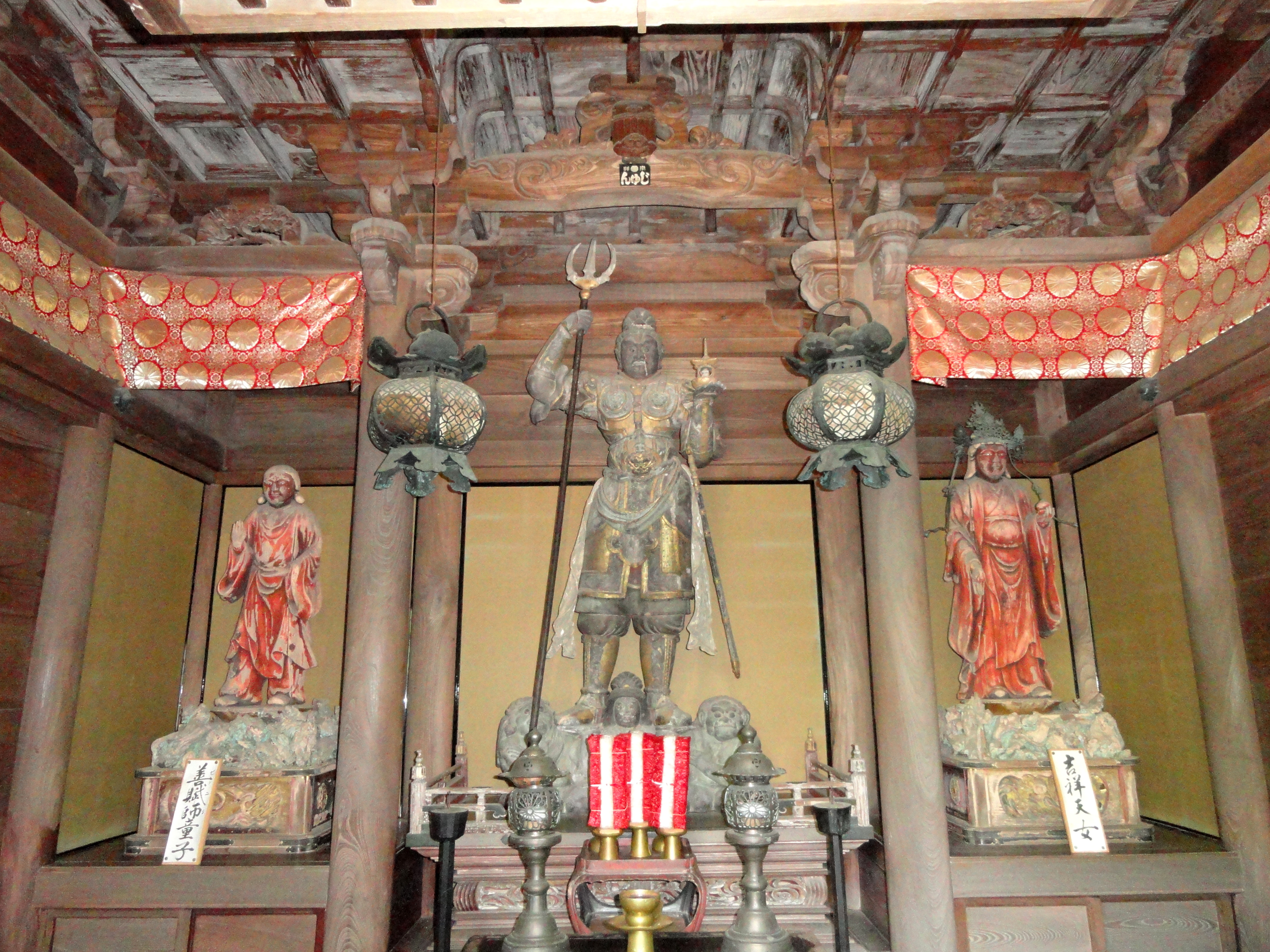 Ishiyamadera (石山寺), Otsu, Shiga, Japan.